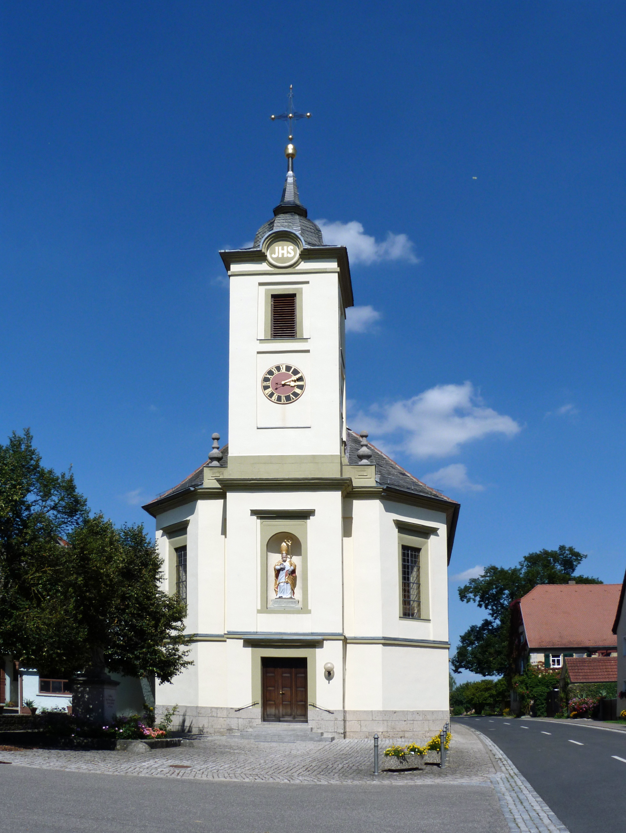 Church St. Erhard in Oesfeld, a quarter of Bütthard.